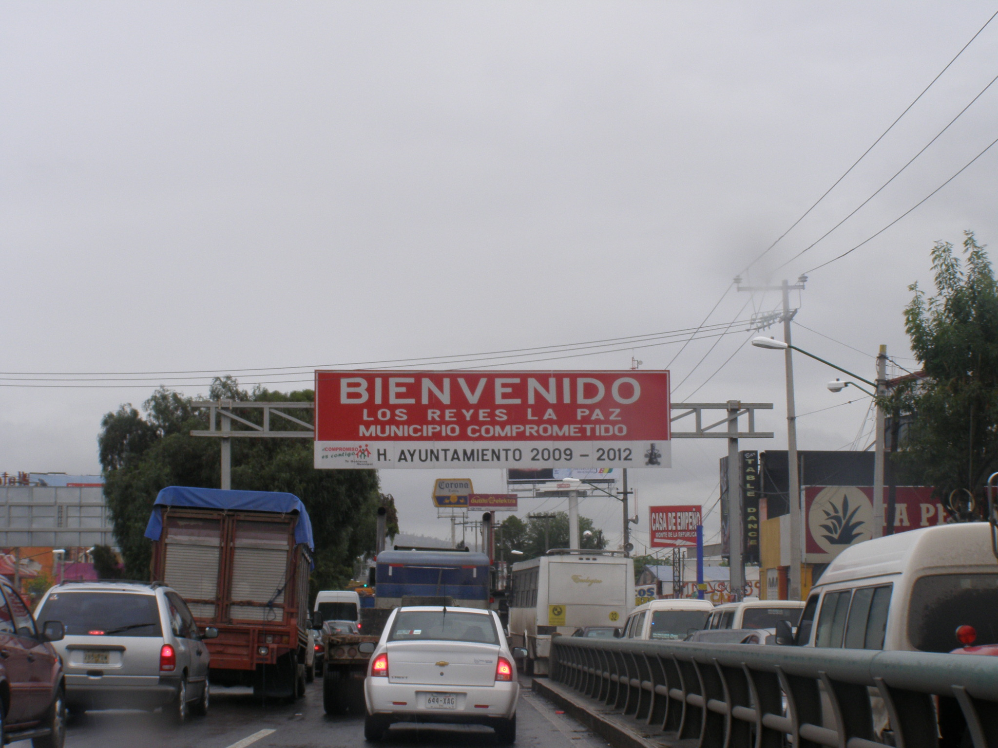 Entrance to Ixtapaluca, municipality of the State of Mexico.